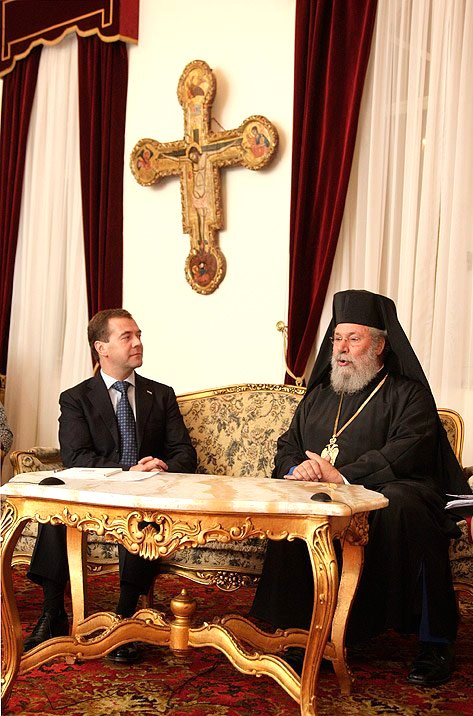 With Chrysostomos II, Archbishop of New Justiniana and All Cyprus.